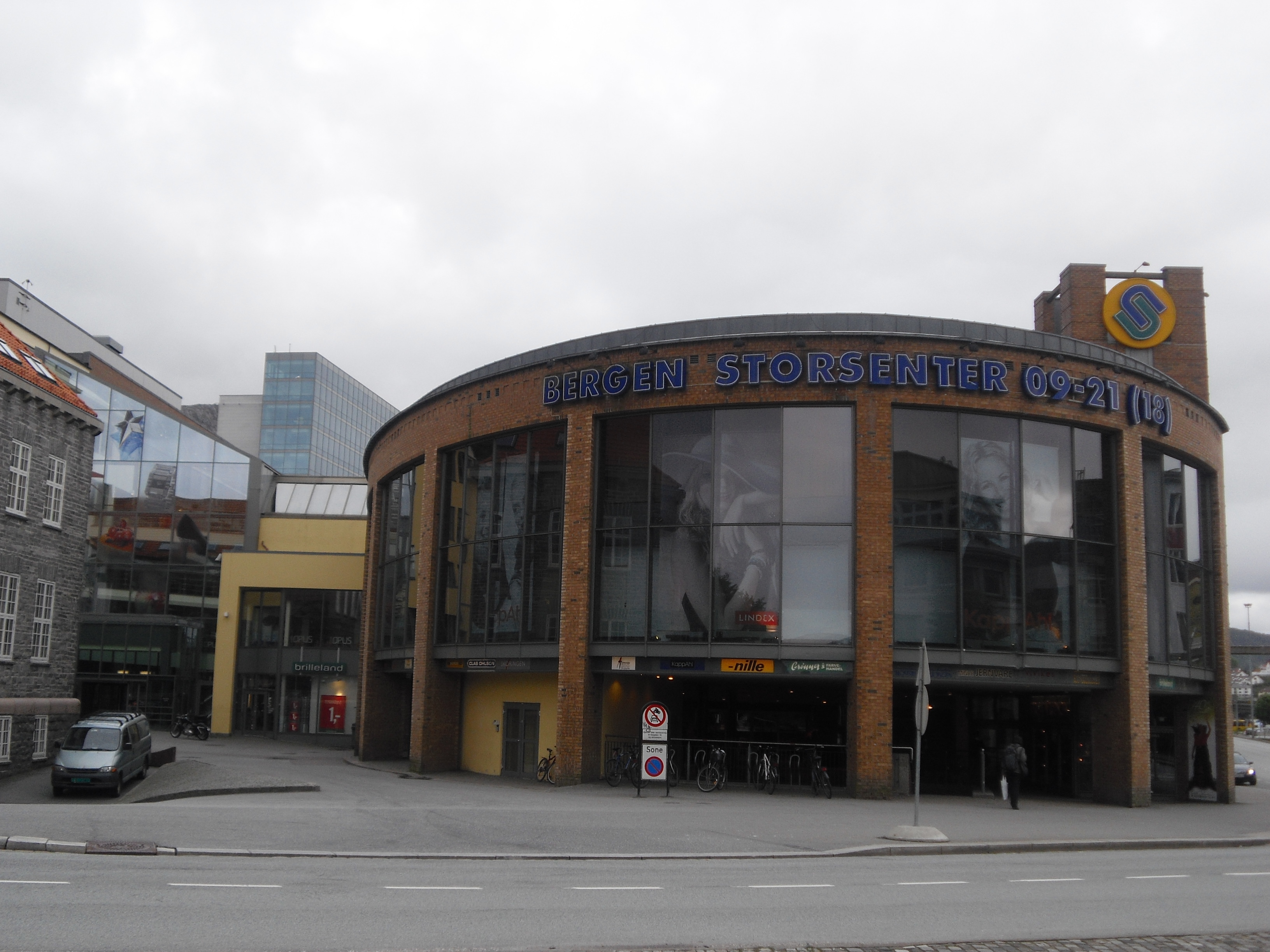 Bergen Storsenter in Bergen, Norway